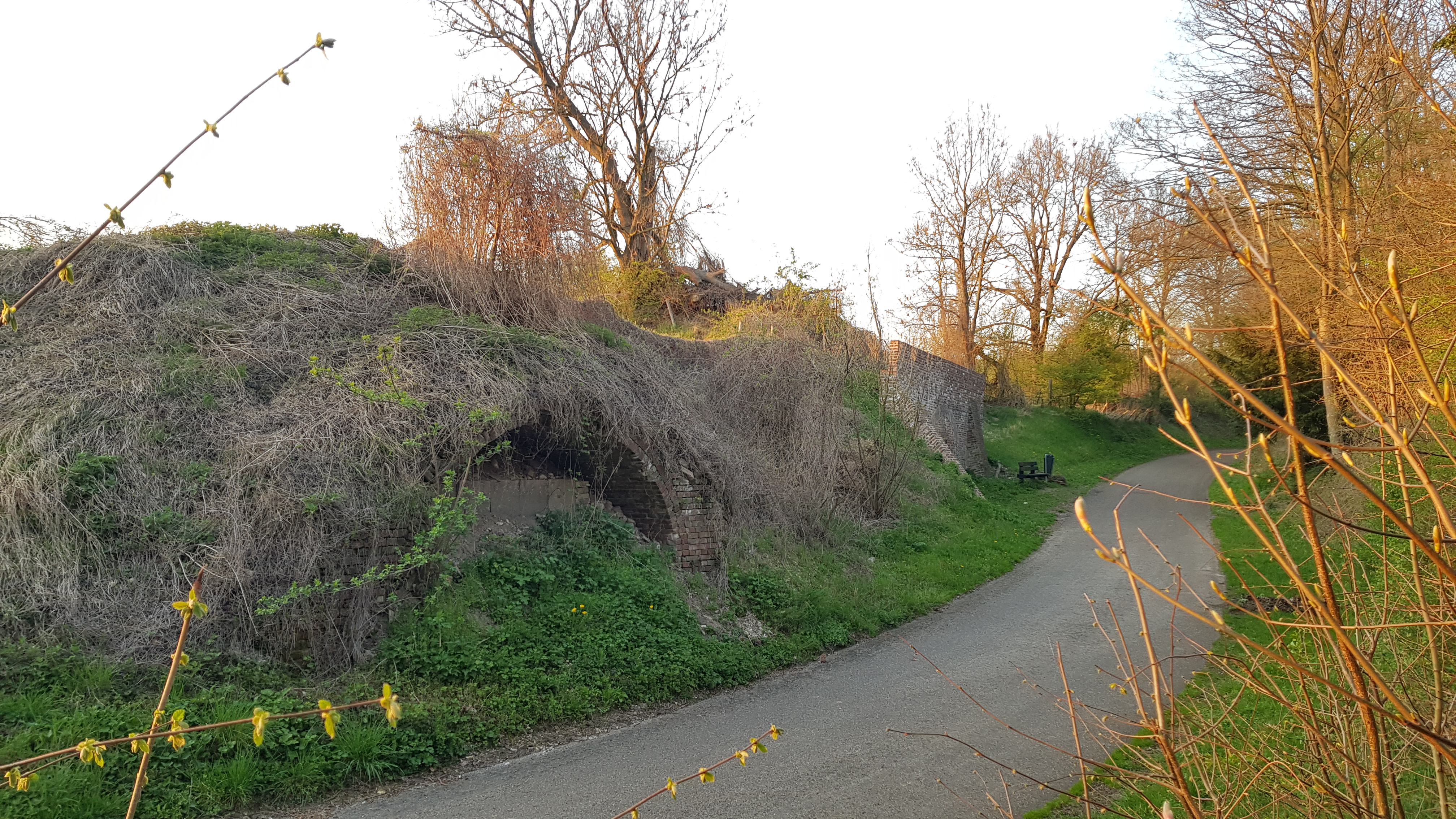 Industrial monument Kalkoven Dikkebuiksweg, Wijlre, Limburg, Netherlands